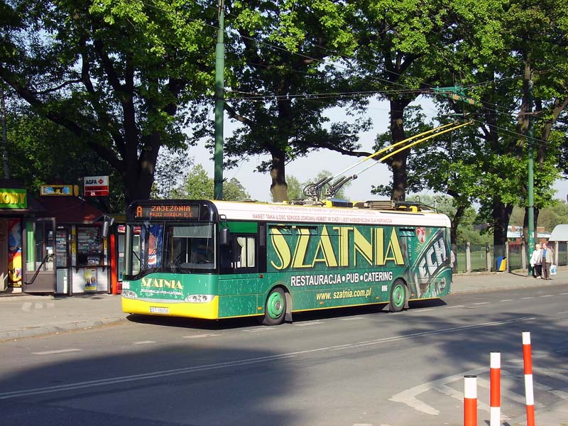 Trolleybus Solaris Trollino 12AC (2005), TLT in Tychy, Poland.